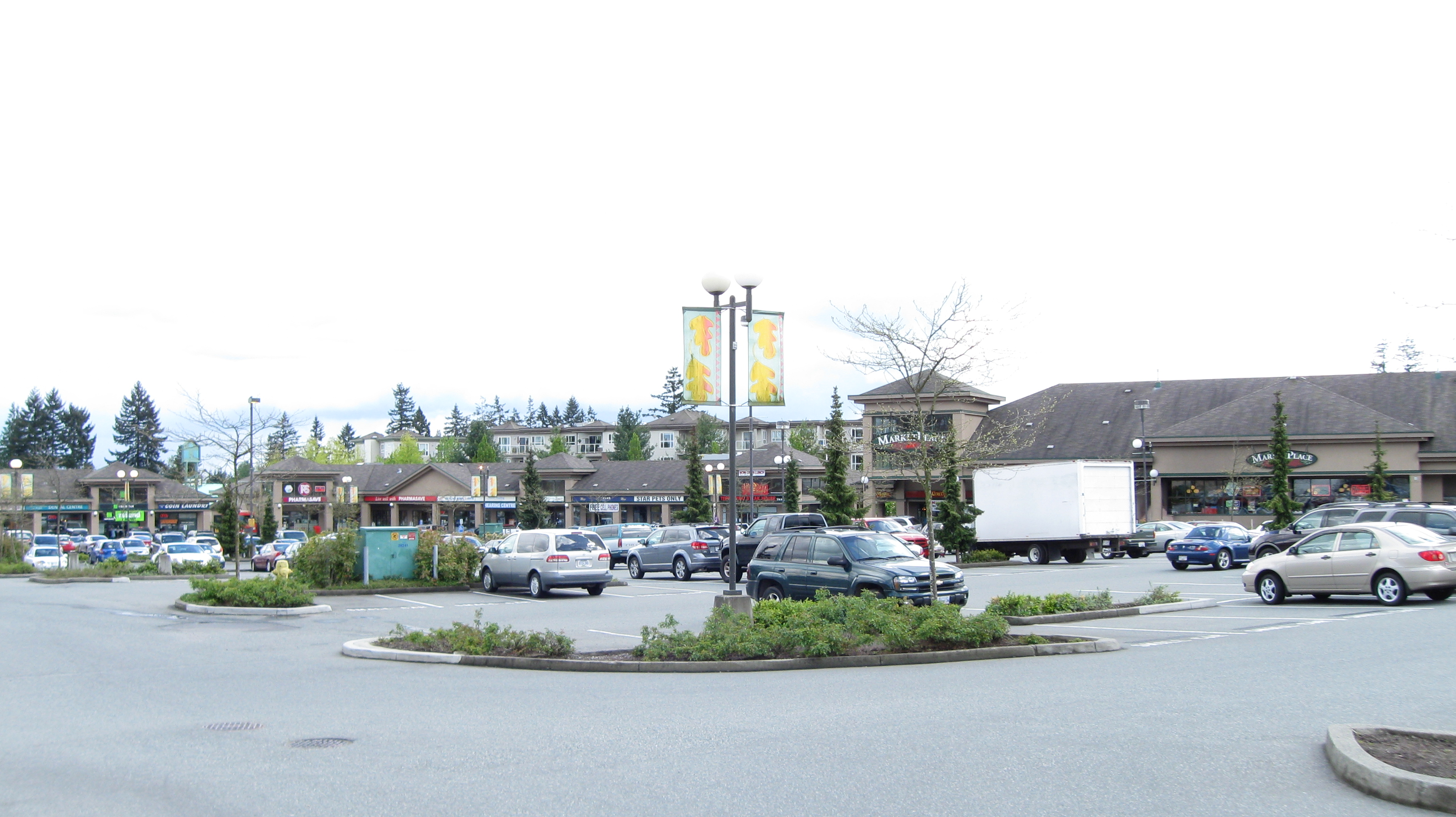 This is a south facing view of the Downtown Fleetwood Town Centre strip mall along the 15900 block of Fraser Highway in Surrey, BC, Canada. It serves the entire community of Surrey Fleetwood.